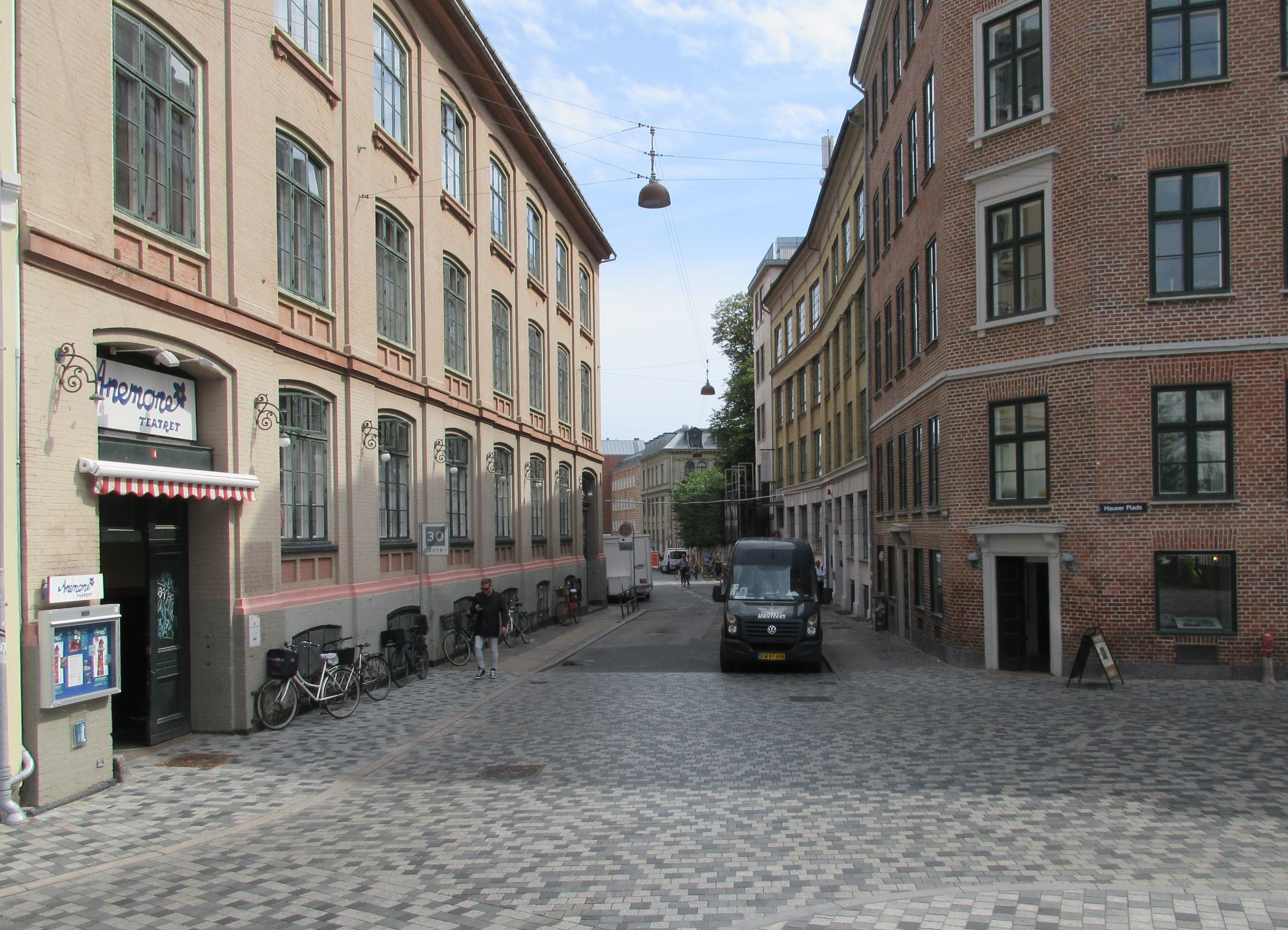 Suhmsgade